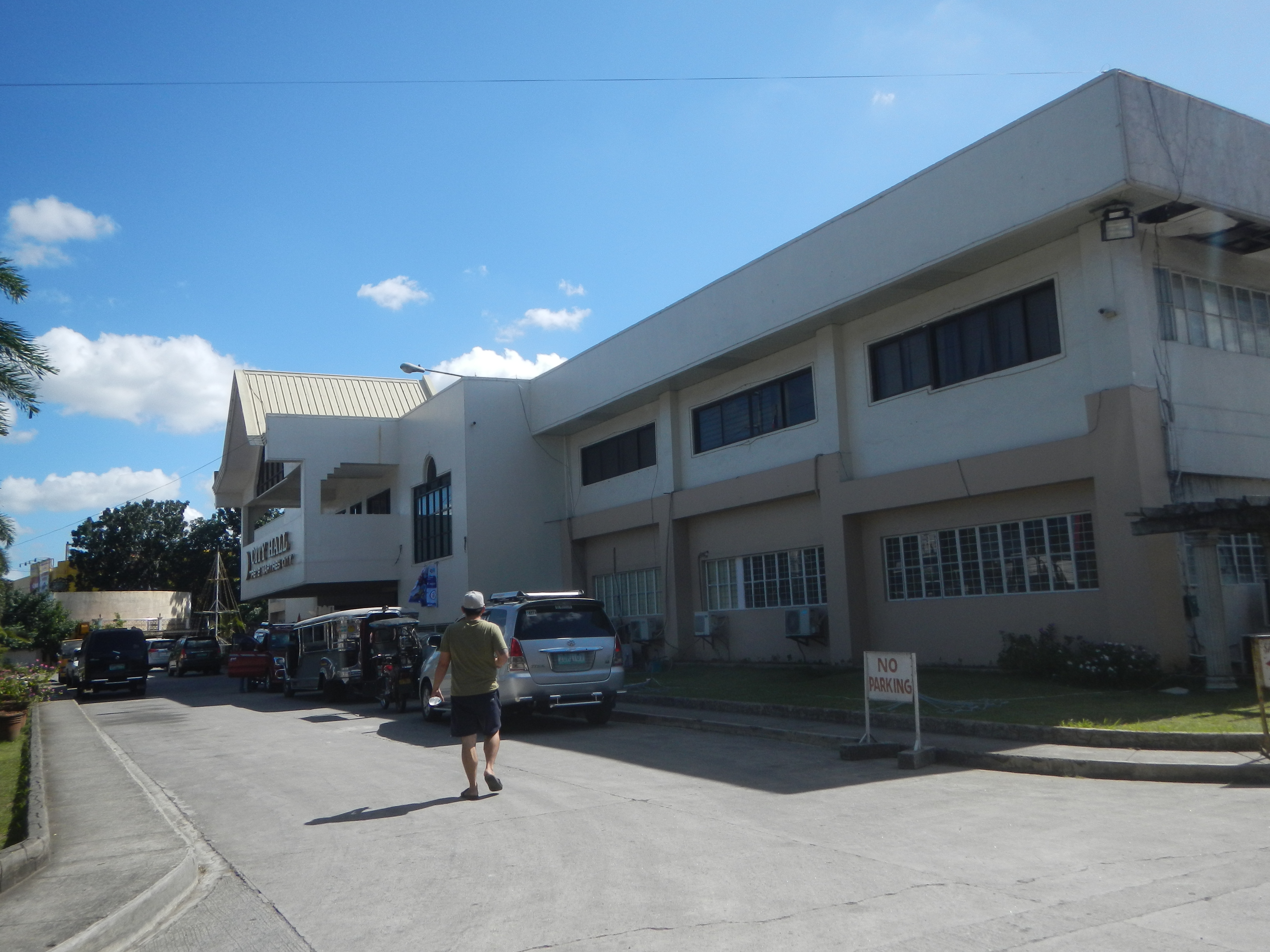 Trece Martires City Hall Governor's Drive (City of Trece Martires, Cavite) Calibuyo, Tanza, Cavite Saint Jude Thaddeus Parish Church of Trece Martires Saint Jude Parish School (City of Trece Martires, Cavite) Luciano (Poblacion), City of Trece Martires, Cavite Colegio de Amore (City of Trece Martires, Cavite) Inocencio, City of Trece Martires, Cavite San Gregorio Magno Parish Church (Inocencio, City of Trece Martires, Cavite) Roman Catholic Diocese of Imus Barangay San Agustin (Poblacion), City of Trece Martires 14°17'3"N 120°51'23"E Luciano (Poblacion), City of Trece Martires 14°16'43"N 120°52'14"E Inocencio, City of Trece Martires 14°15'17"N 120°52'37"E De Ocampo 14°17'46"N 120°51'55"E Trece Martires Tanza–Trece Martires Road corner Trece Martires–Indang Road towards Aguinaldo Highway corner Governor's Drive Governor's Drive (City of Trece Martires, Cavite) Philippine highway network (Note: Judge Florentino Floro, the owner, to repeat, Donor Florentino Floro of all these photos hereby donate gratuitously, freely and unconditionally all these photos to and for Wikimedia Commons, exclusively, for public use of the public domain, and again without any condition whatsoever).